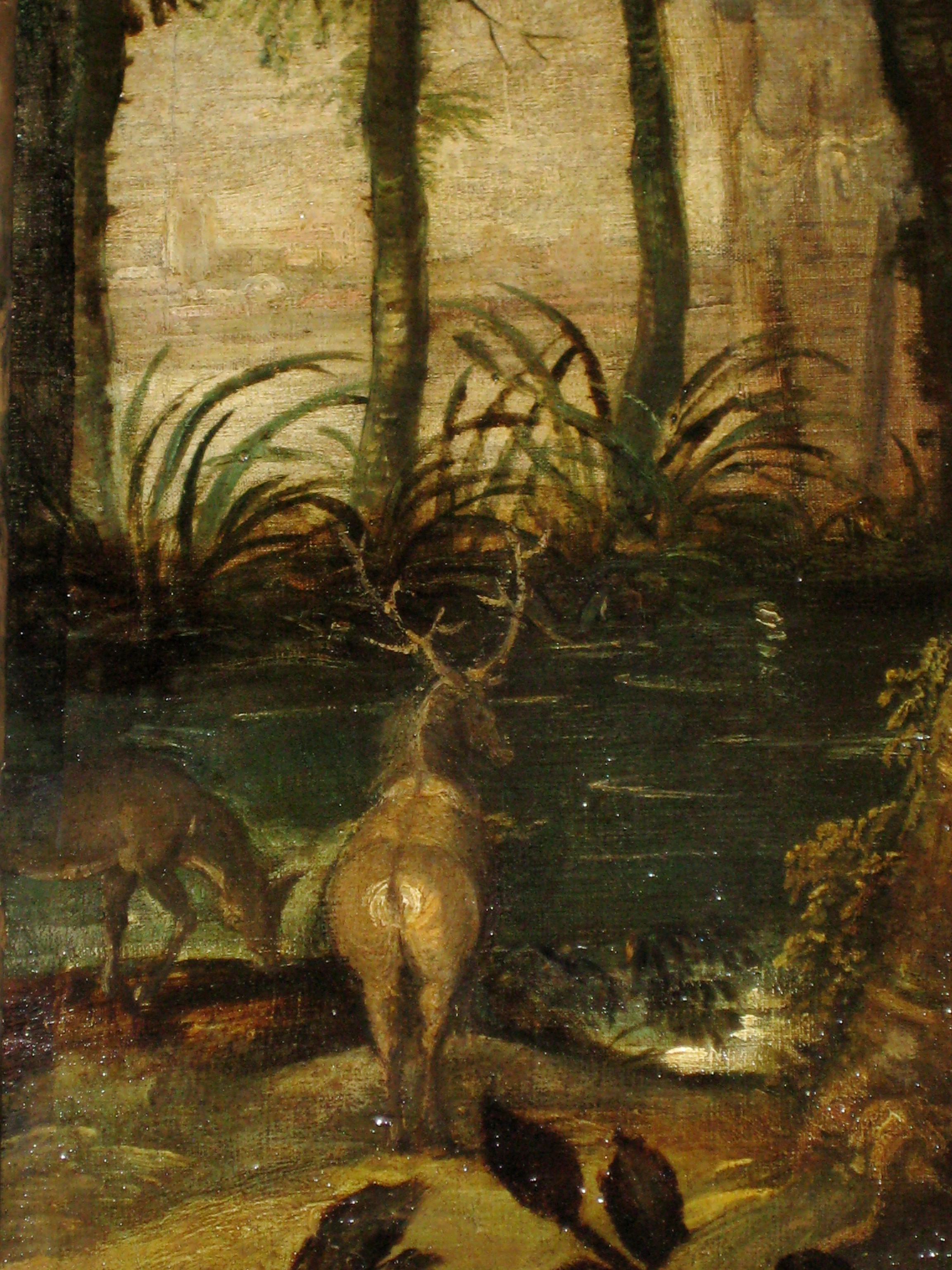 Jacopo Tintoretto: Susanna and the Elders, detail (Deer and Venice)